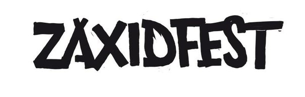 Zaxidfest logo